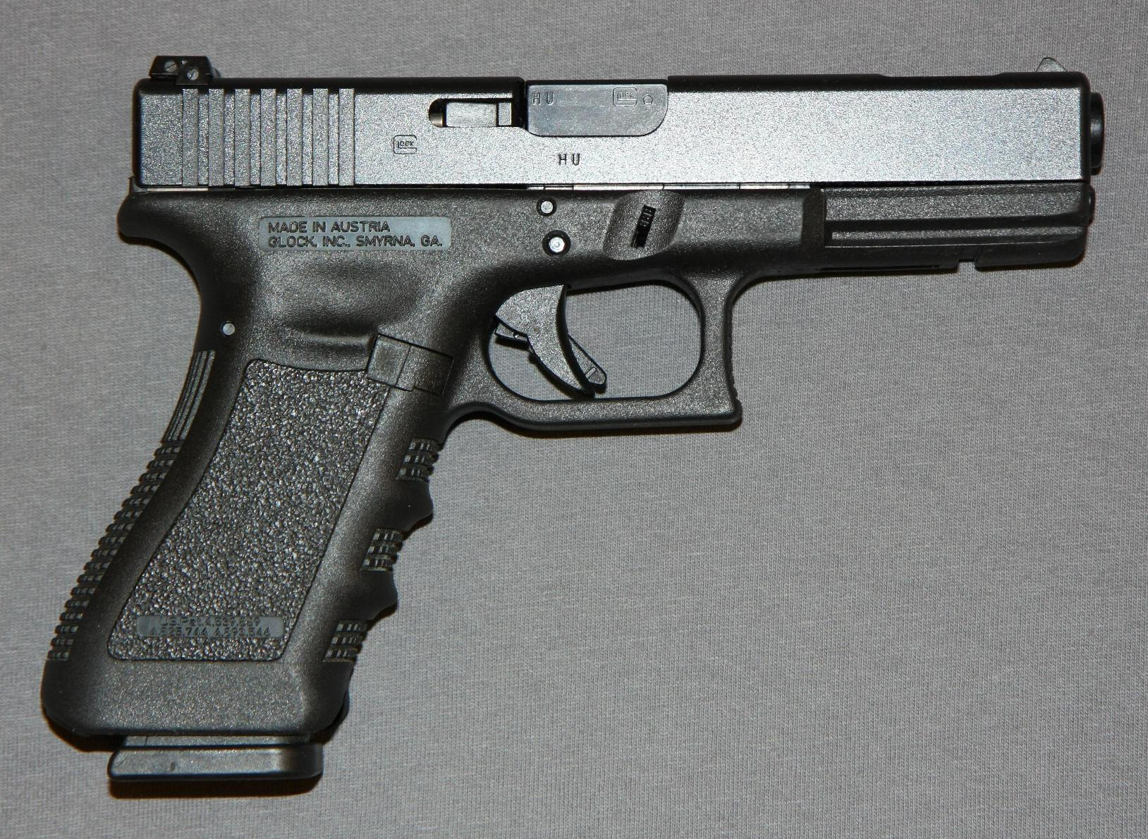 Glock 17C (compensated) with Glock Rail and adjustable rear sight